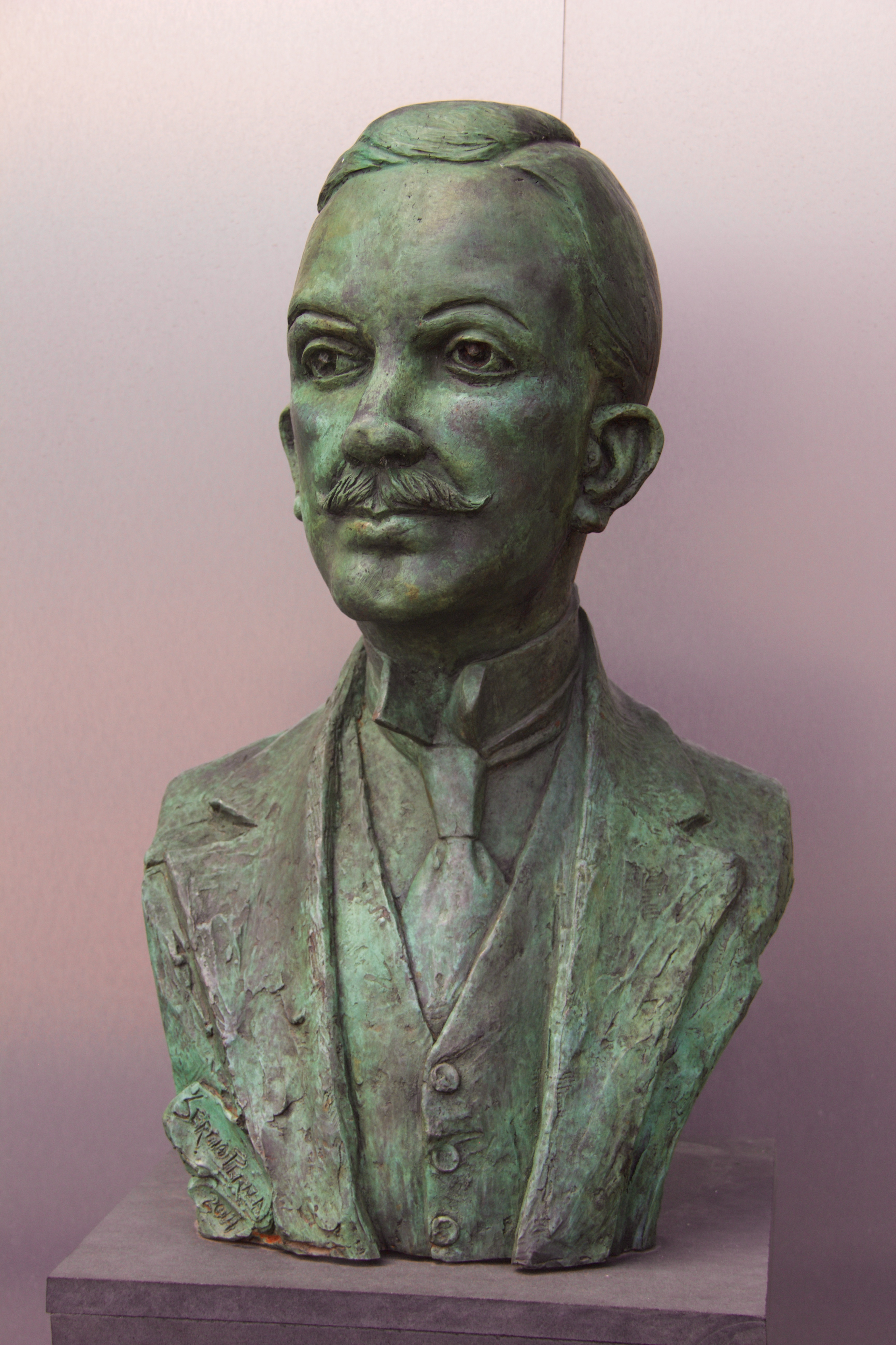 Manuel Gamio (1883-1960). Templo Mayor, Mexico City, Mexico.